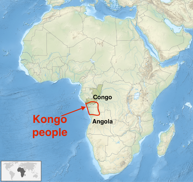 Historic geographical distribution of the Kongo people in Africa This is a derivative work on the following wikimedia file: File:Republic of the Congo in Africa (relief).svg